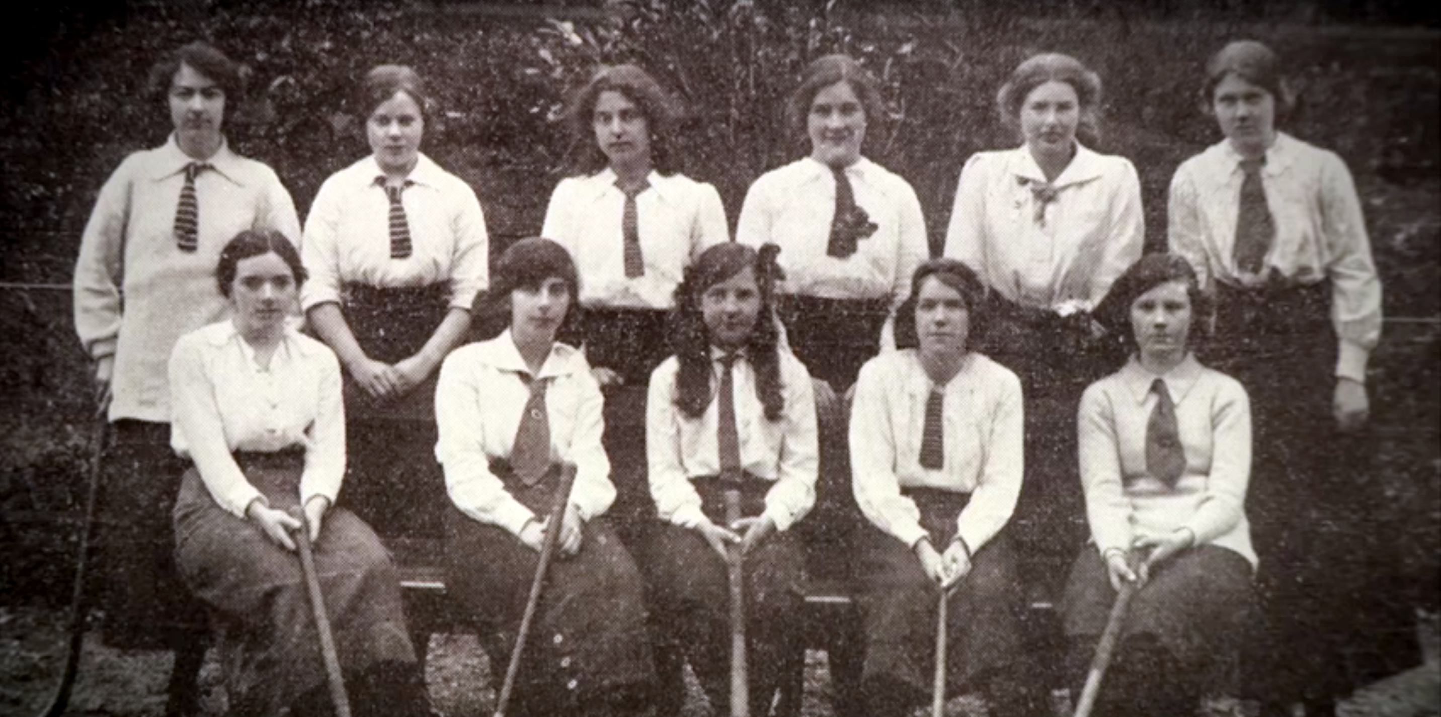 Jane Haining (1897–1944), Scottish missionary in Budapest, at Dumfries Academy, Scotland, front row, second right. The photograph was taken c. 1909–1916. It appears to be a school hockey team.